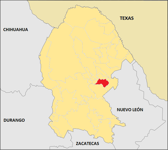 Monclova, Coahuila, Mexico location